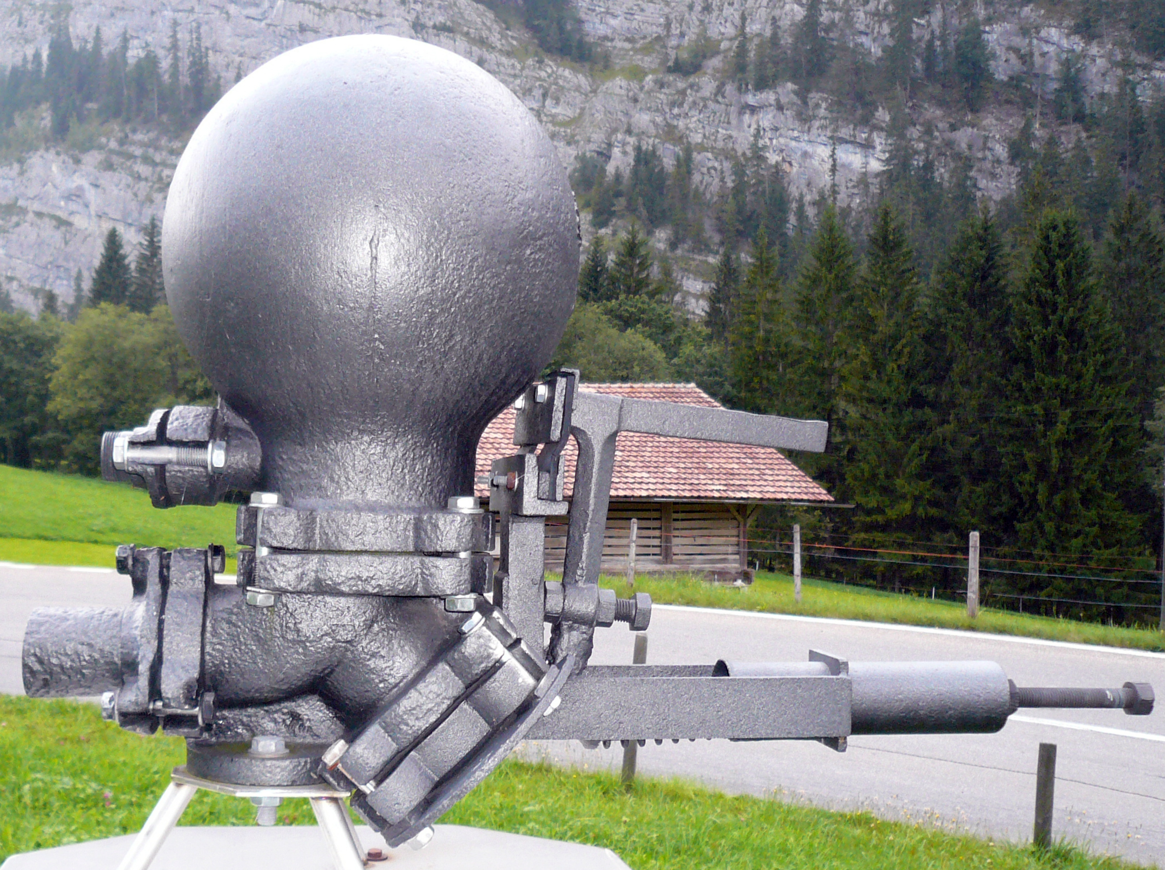 Hydraulic Ram. The refurbished show object from cast iron is presented near "Staldenmaadhütte" a hut of SAC for tourists in Zwischenflüh in Diemtigtal, Kanton Bern, Switzerland.